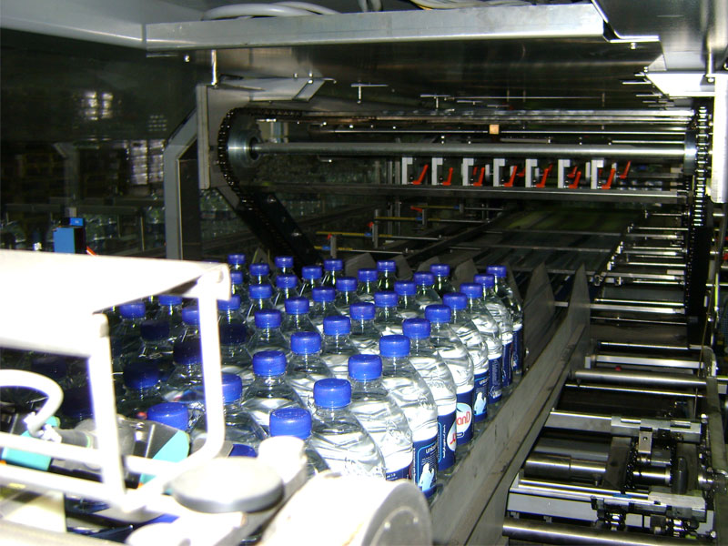 Damavand Mineral Water bottle